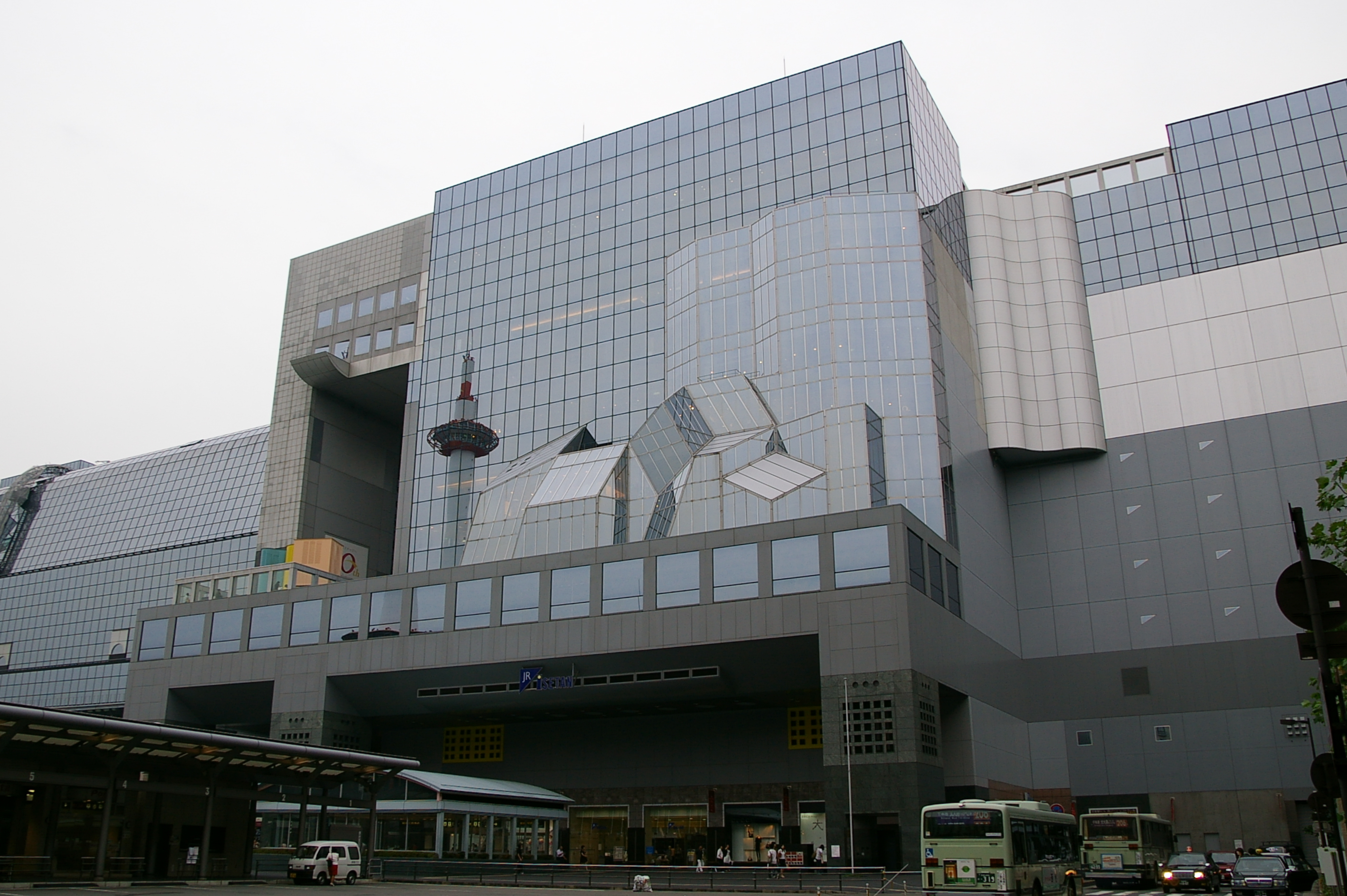 Photograph of JR Kyoto Isetan, the department store which occupies west half of JR Kyoto Station Building, in Shimogyo-ku, Kyoto, Kyoto Prefecture, Japan.